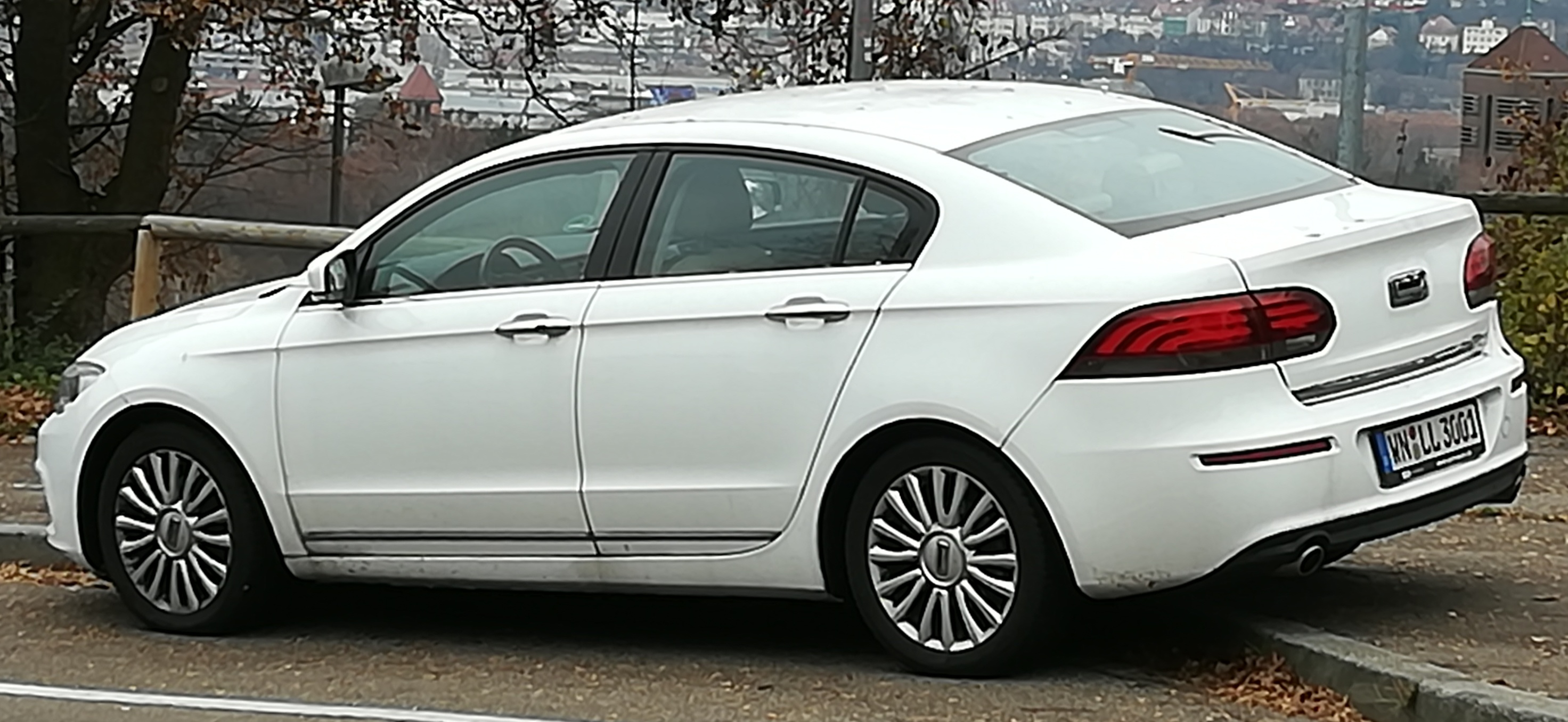 Qoros 3 Sedan in Stuttgart in December 2018